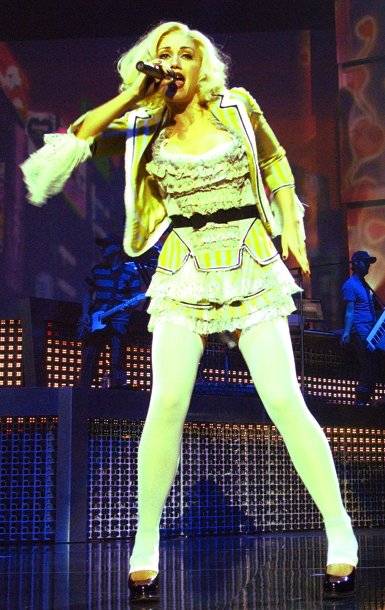 Gwen Stefani performing "Harajuku Girls" in Duluth, Georgia, United States